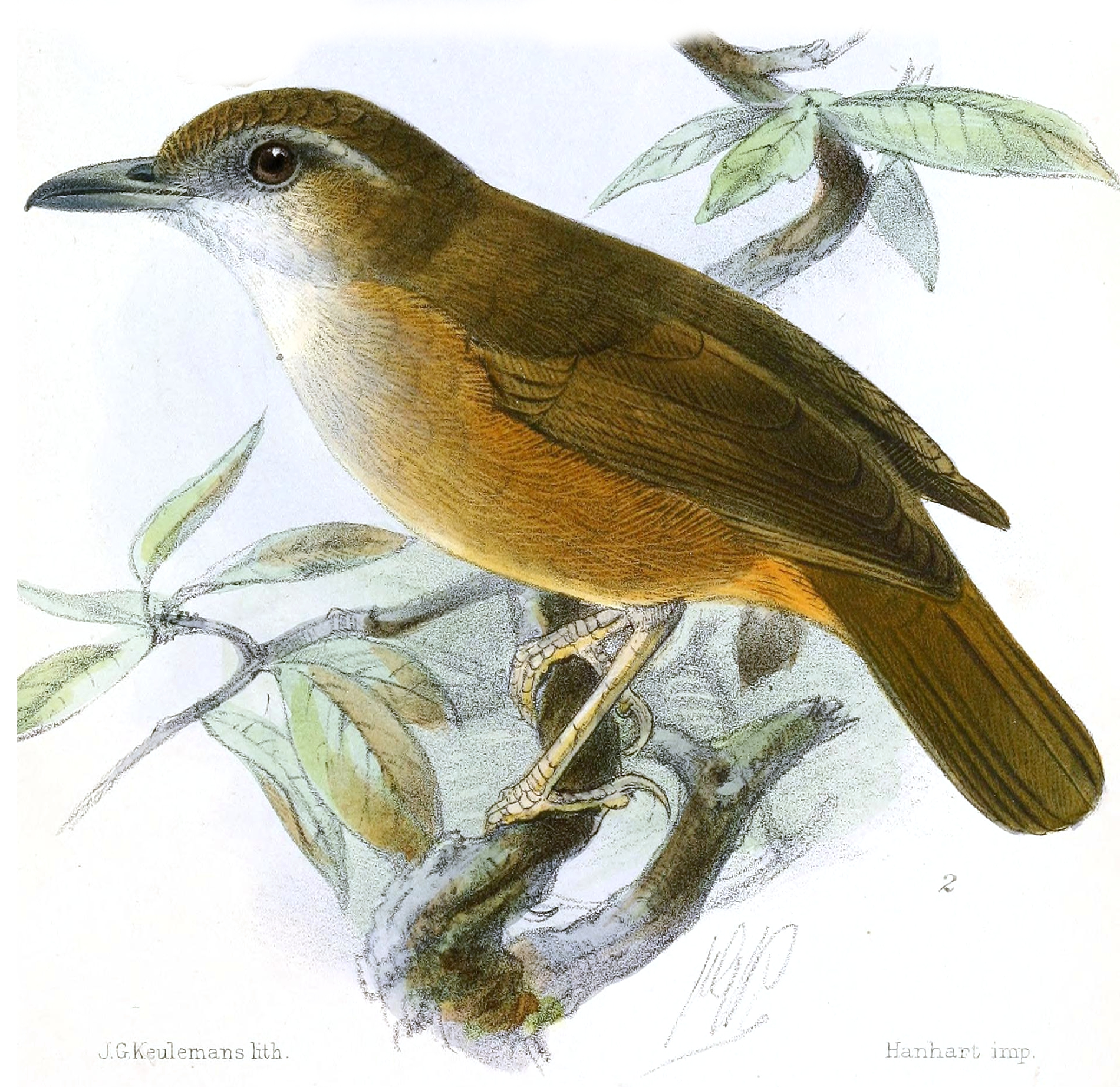 « Trichostoma abbotti » = Malacocincla abbotti (Abbott's Babbler)